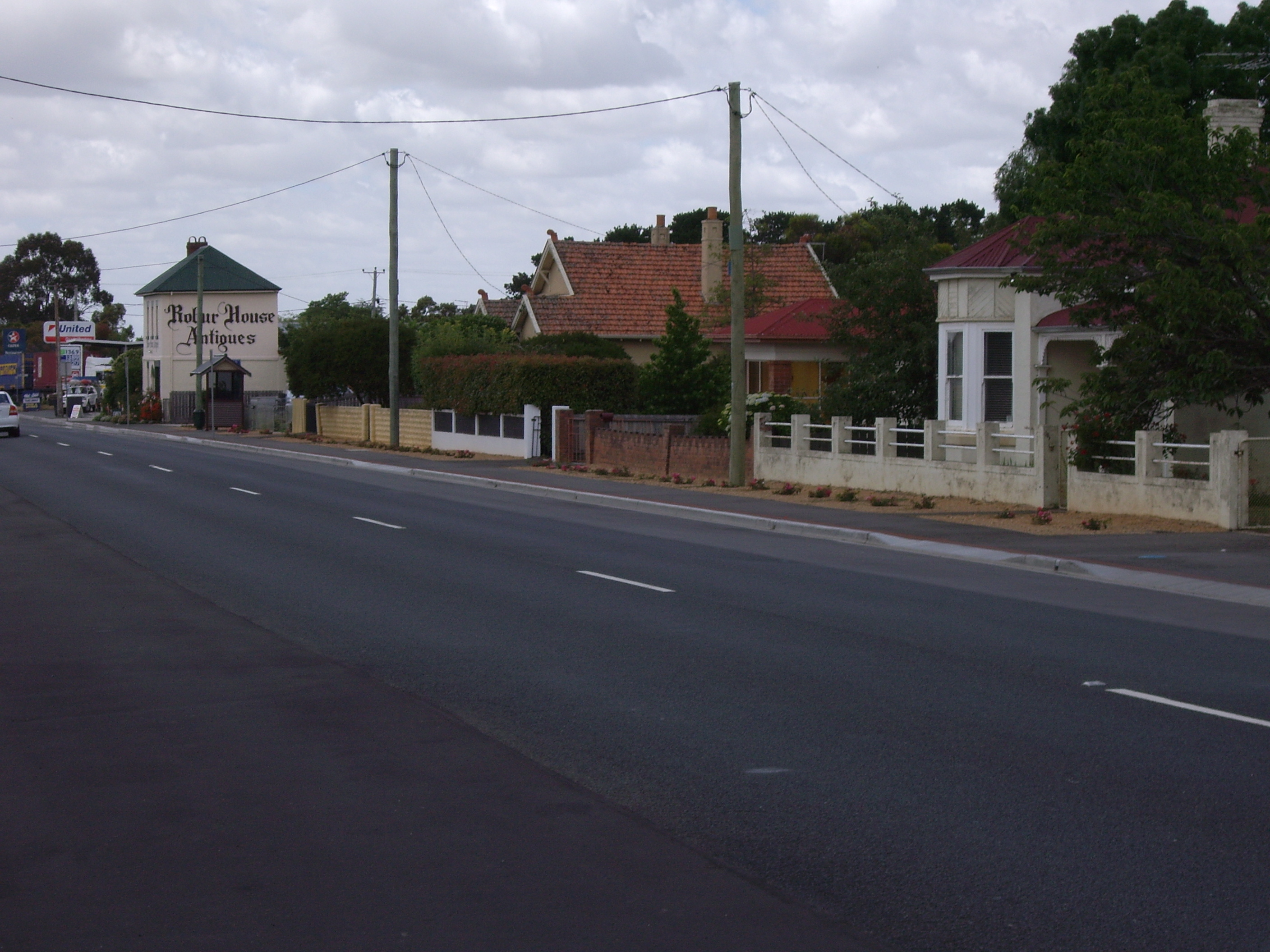 Main Street of Perth, Tasmania